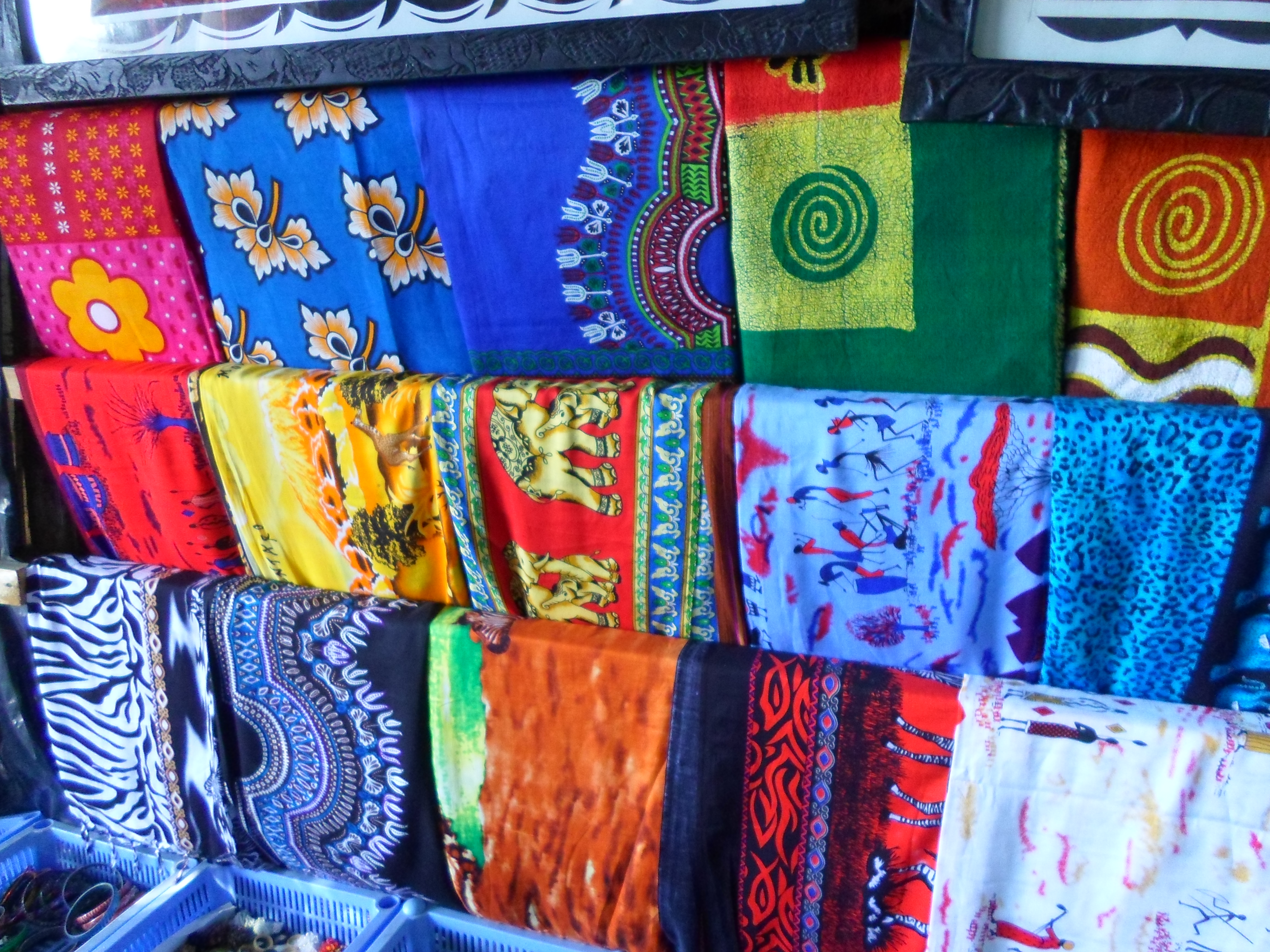 African aligned clothes for sale This is an image of Cultural Fashion or Adornment from Tanzania